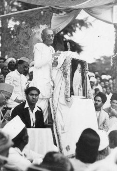 Chakravarti Rajagopalachari addressing a meeting at Nehru maidan, Ootacamund